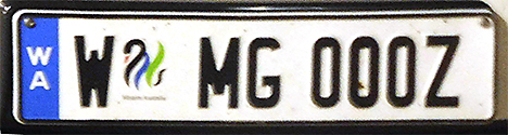 Western Australia Europlate, W MG 000Z